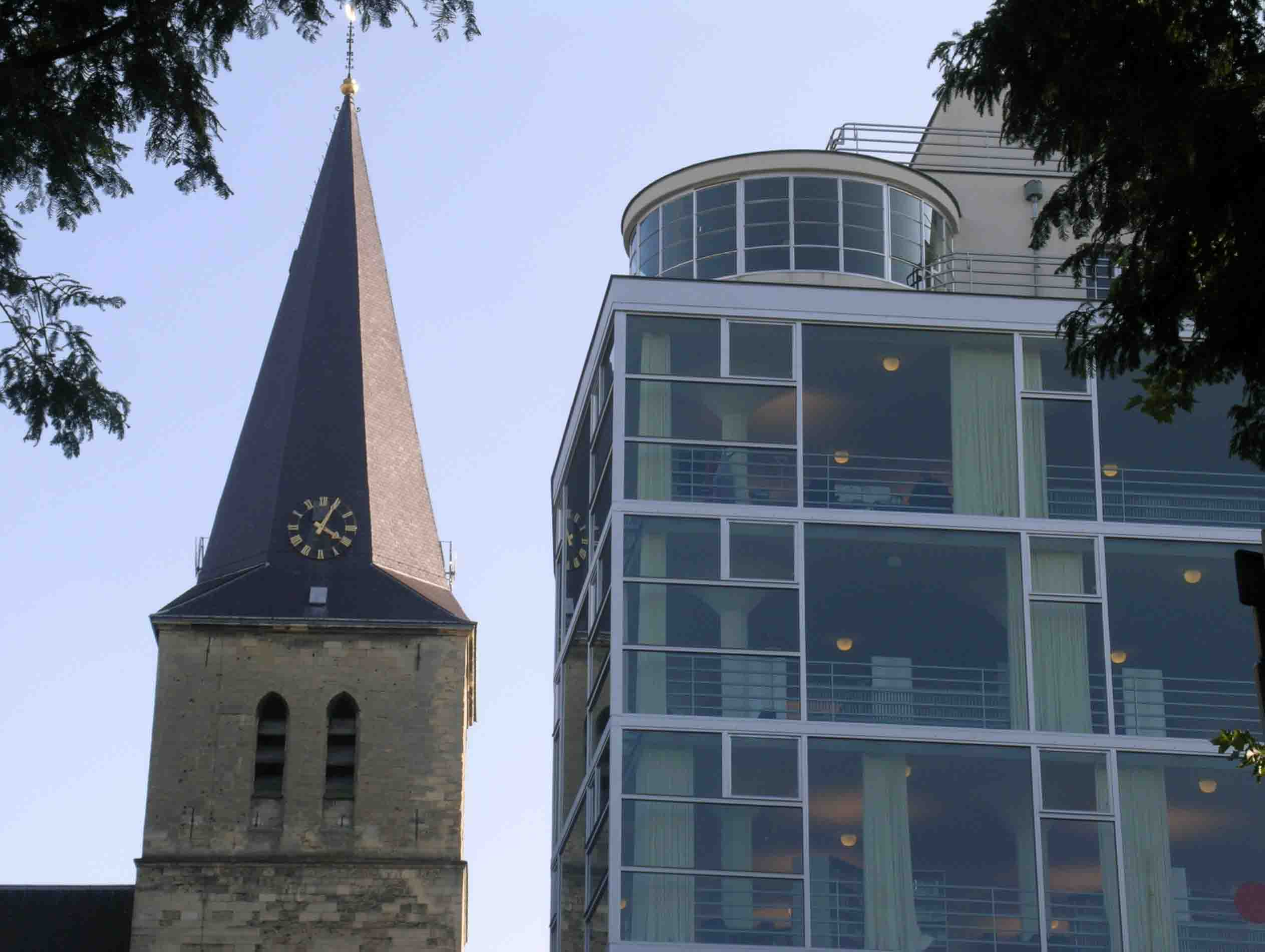 Photograph made and uploaded by Dirk van der Made The penthouse bay of the Glaspaleis